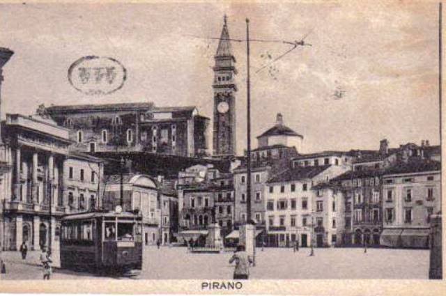 Postcard of Piran, a view of Tartini Square and the tram.